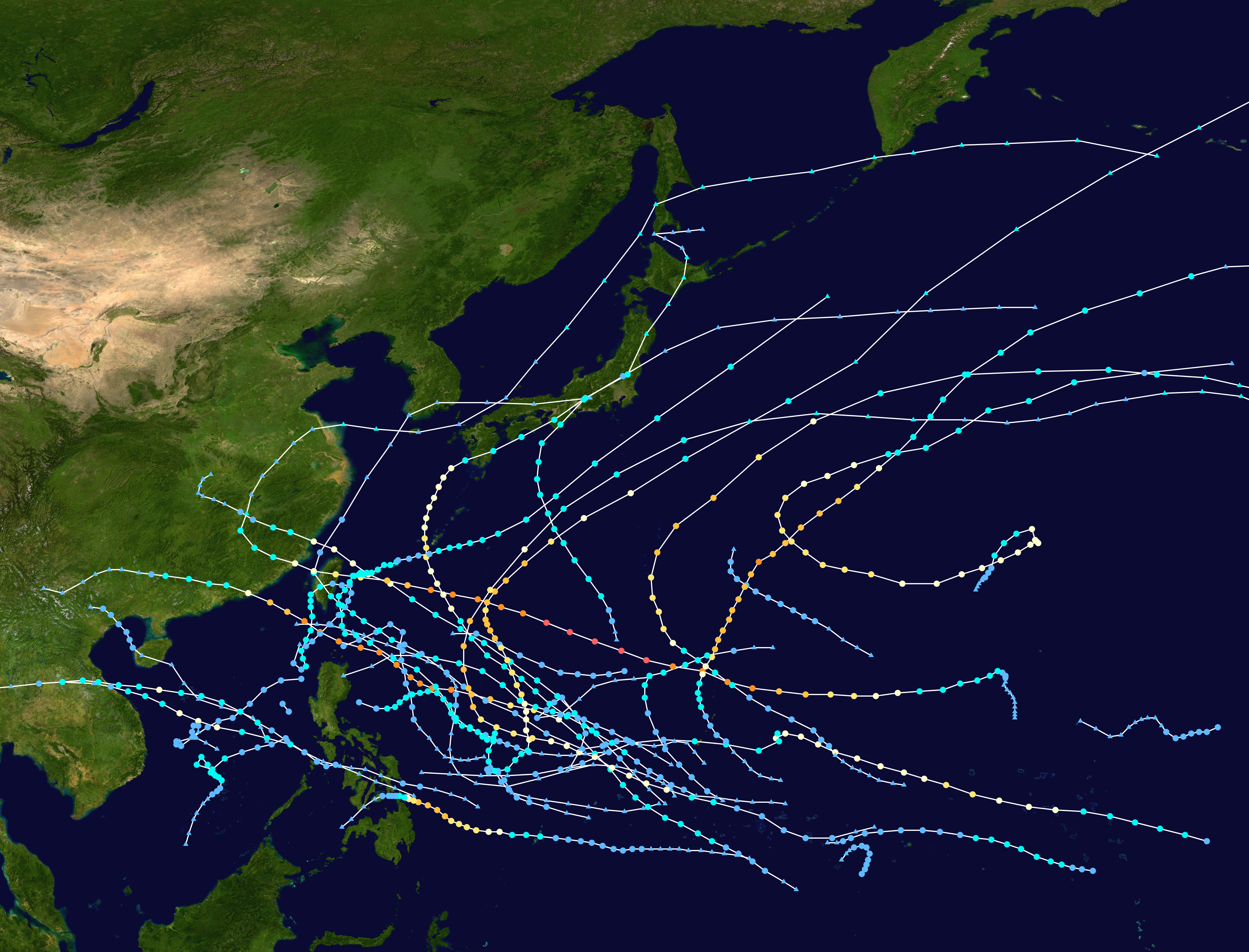 This map shows the tracks of all tropical cyclones in the 1969 Pacific typhoon season. The points show the location of each storm at 6-hour intervals. The colour represents the storm's maximum sustained wind speeds as classified in the Saffir-Simpson Hurricane Scale (see below), and the shape of the data points represent the nature of the storm. Saffir–Simpson hurricane wind scale Tropical depression≤38 mph≤62 km/h Category 3111–129 mph178–208 km/h Tropical storm39–73 mph63–118 km/h Category 4130–156 mph209–251 km/h Category 174–95 mph119–153 km/h Category 5≥157 mph≥252 km/h Category 296–110 mph154–177 km/h Unknown Storm typeTropical cycloneSubtropical cycloneExtratropical cyclone / Remnant low / Tropical disturbance